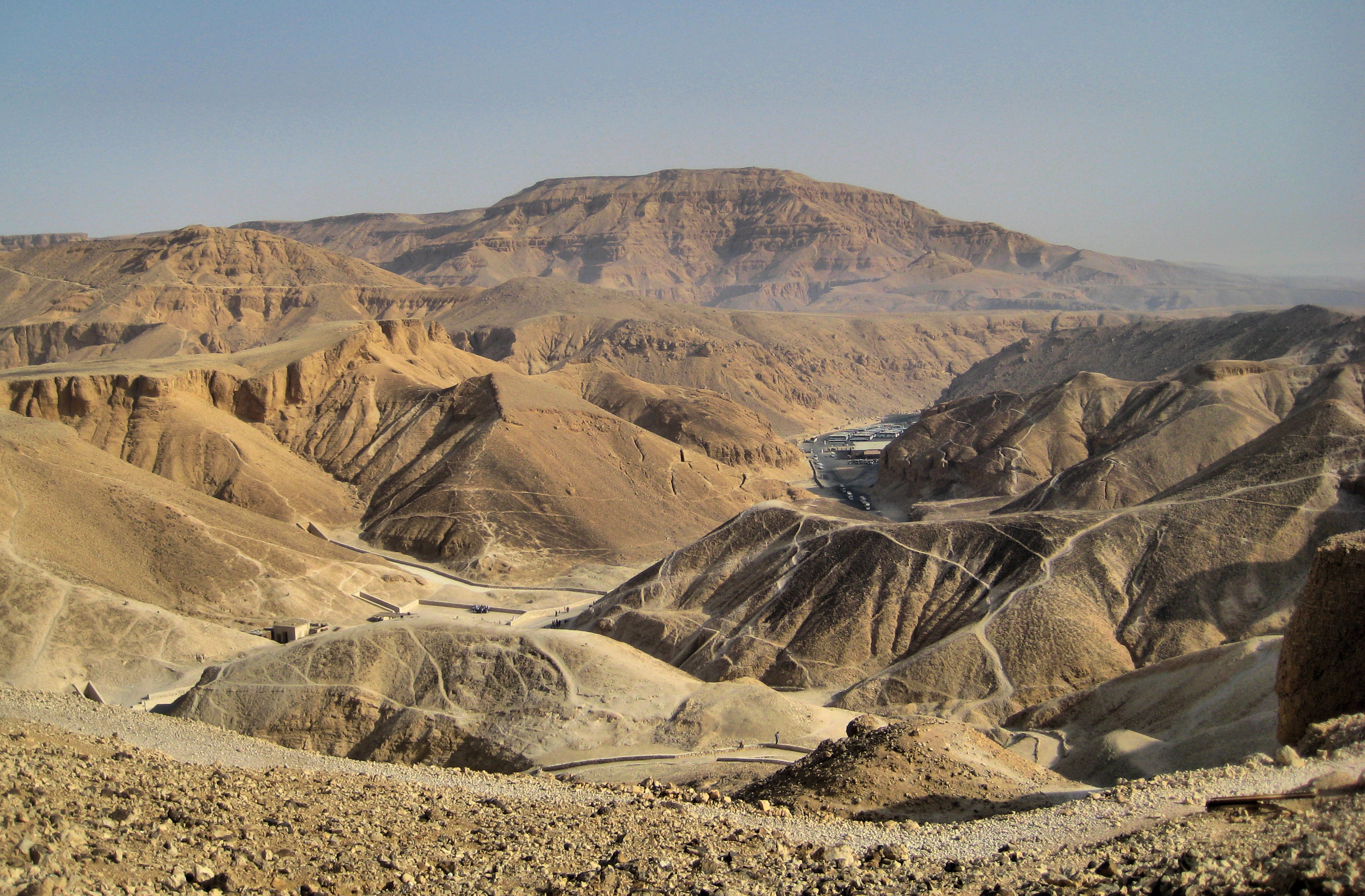 Hike above Valley of the Kings